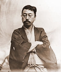 Okakura Kakuzō (1863 - 1913), Japanese art critic